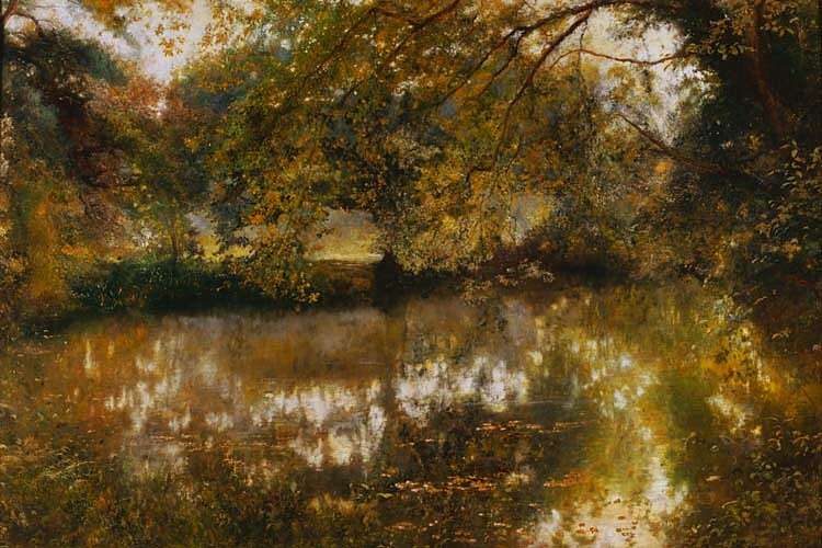 In The Golden Weather